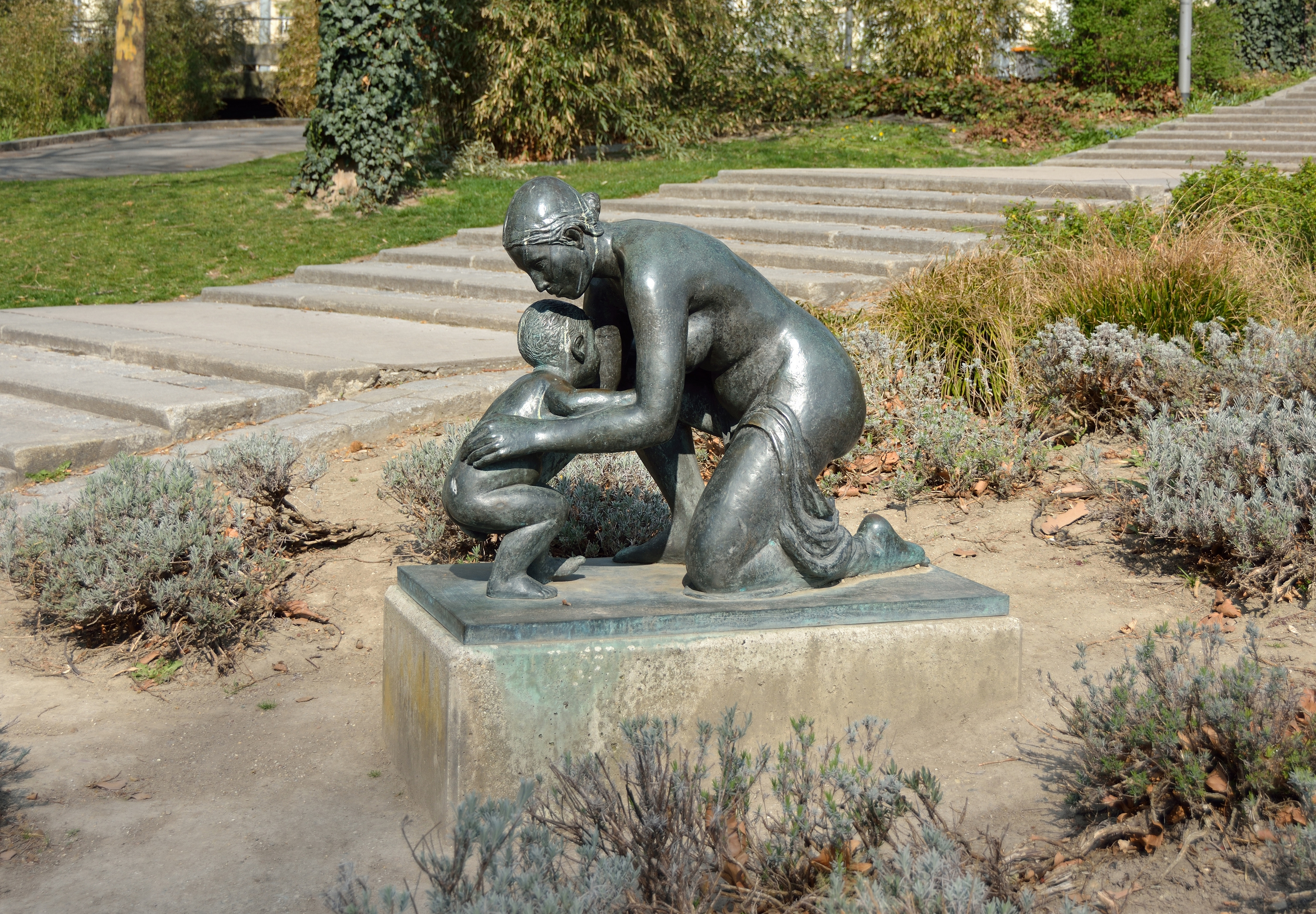 Kneeling Mother with child, sculpture by Georg Ehrlich, Karlsplatz, 4th district of Vienna